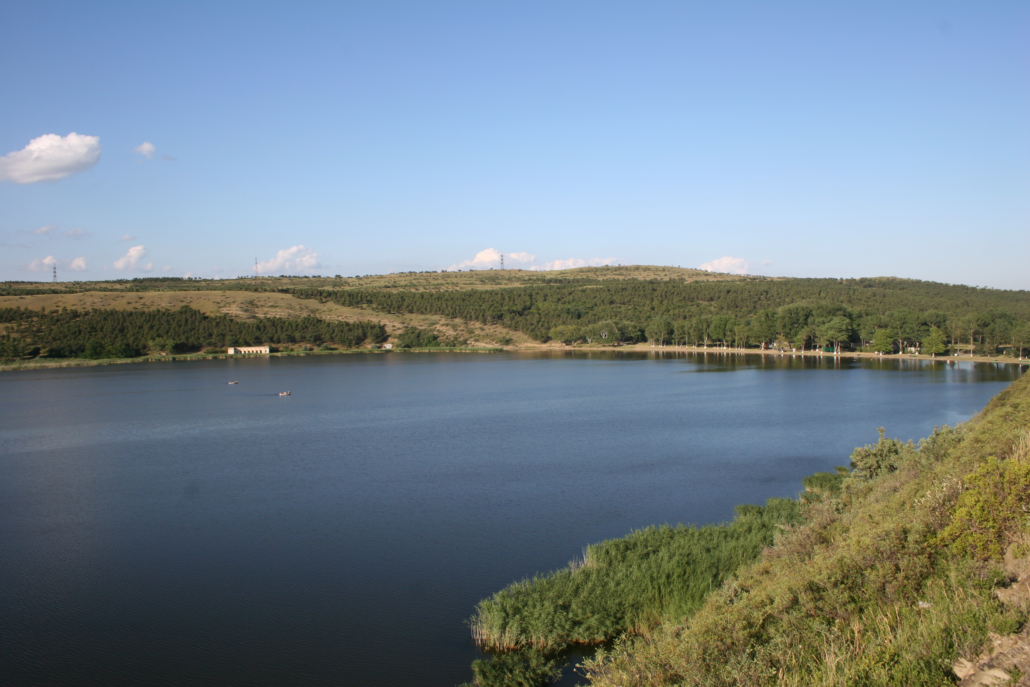 Lisi lake, near Tbilisi, Georgia